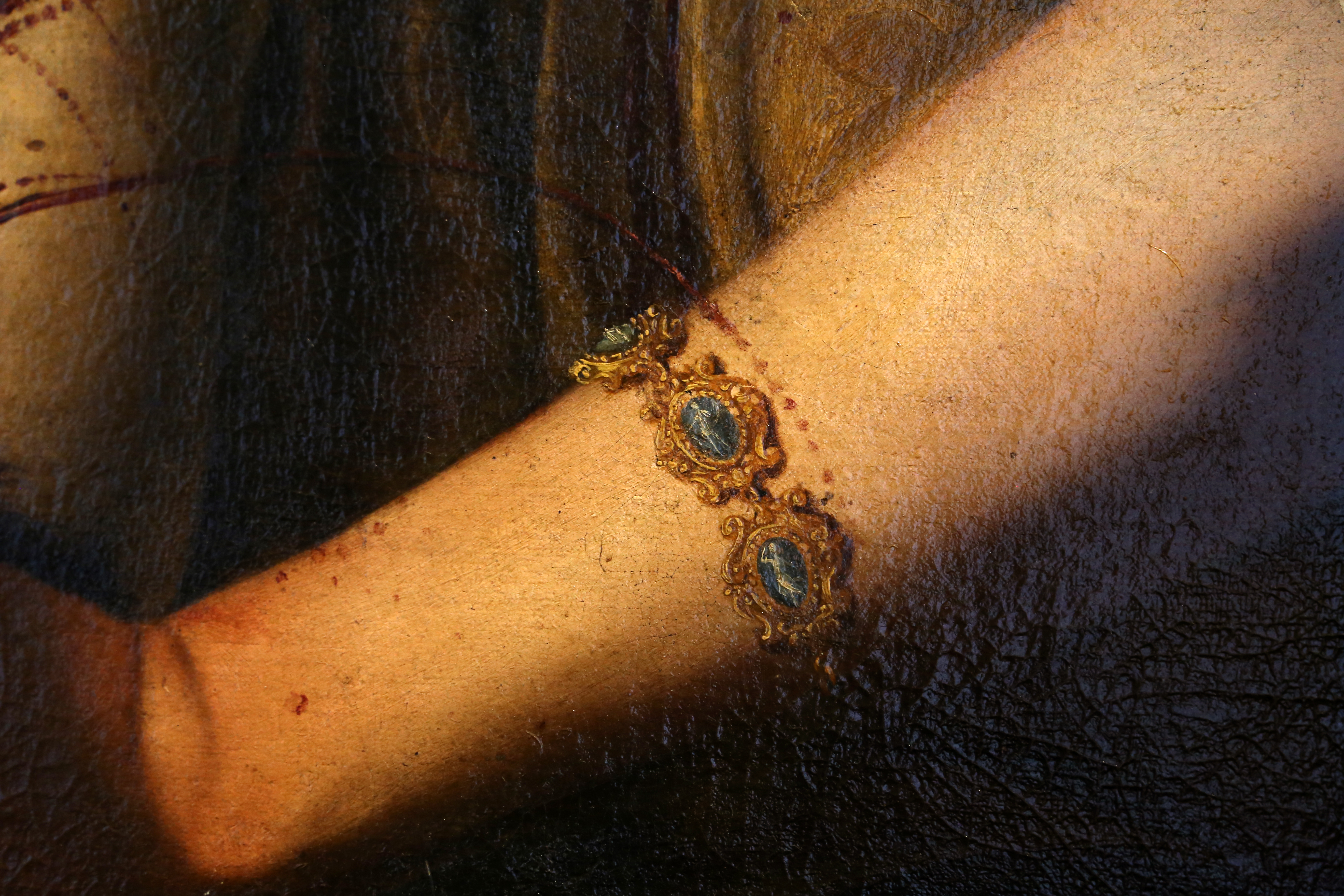 Paintings in the Uffizi Gallery